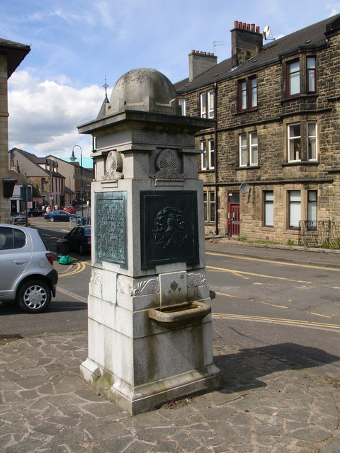 Dalrymple Memorial, Townhead, Kirkintilloch This memorial is located in Industry Street, and is in memory of the Dalrymples, and erected in 1905. The inscription reads; "Presented to the town of Kirkintilloch by James D G Dalrymple of Woodhead. Senior Magistrate of the burgh of Barony of Kirkintilloch. 1905". Whilst it might seem a good idea of self publicity, it is highly unlikely whether anyone would tolerate the self publicity of 'gifting' a memorial to yourself in your local town, but perhaps magistrates were held in higher regard then. On the other faces of the memorial are listed all the male members of the Dalrymple bloodline from the 1700's.